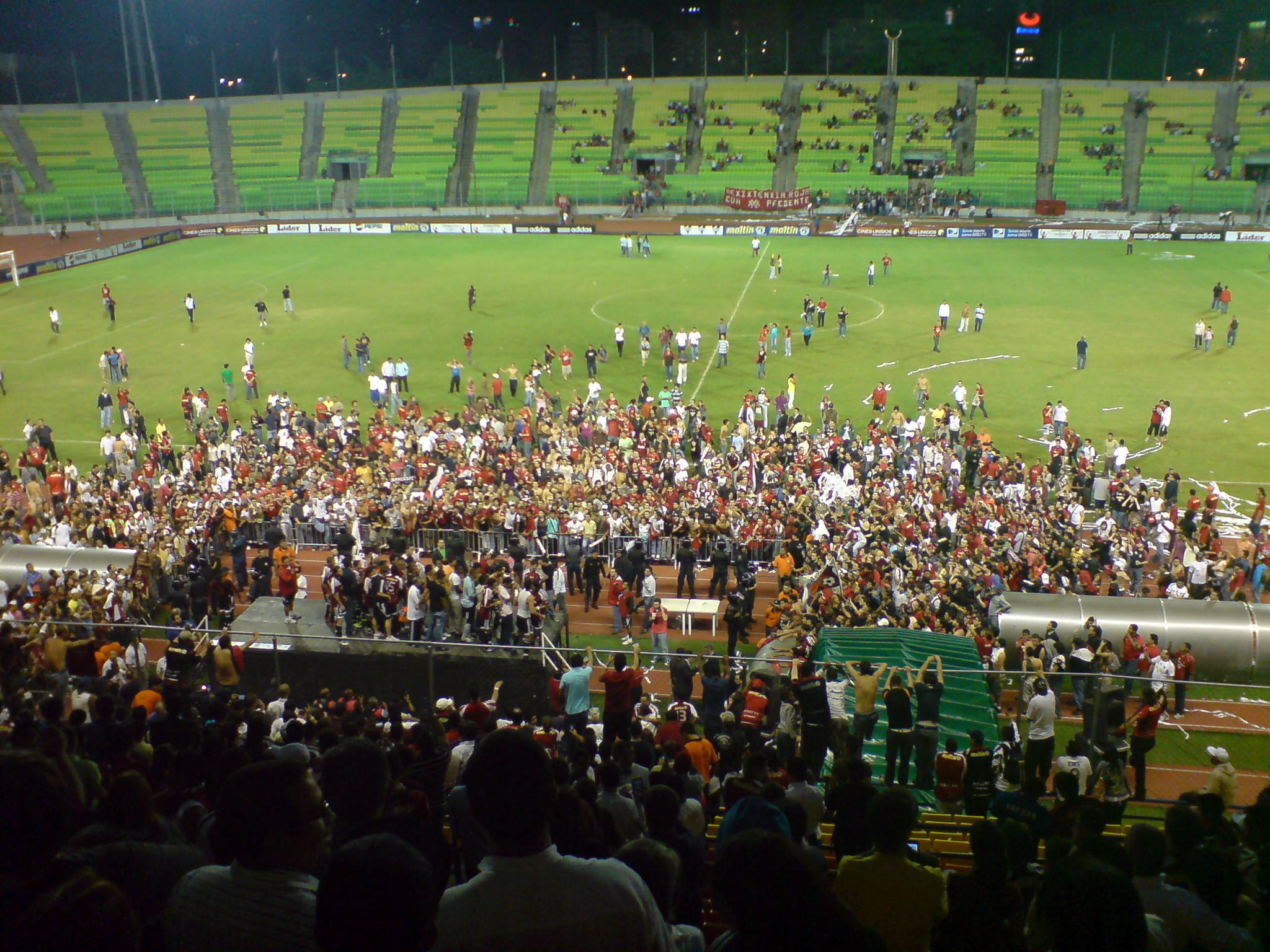 Celebration at the Olympic Stadium of the Central University of Venezuela after the victory of the Caracas FC over Trujillanos, which meant the championship of the 2009 Copa Venezuela.